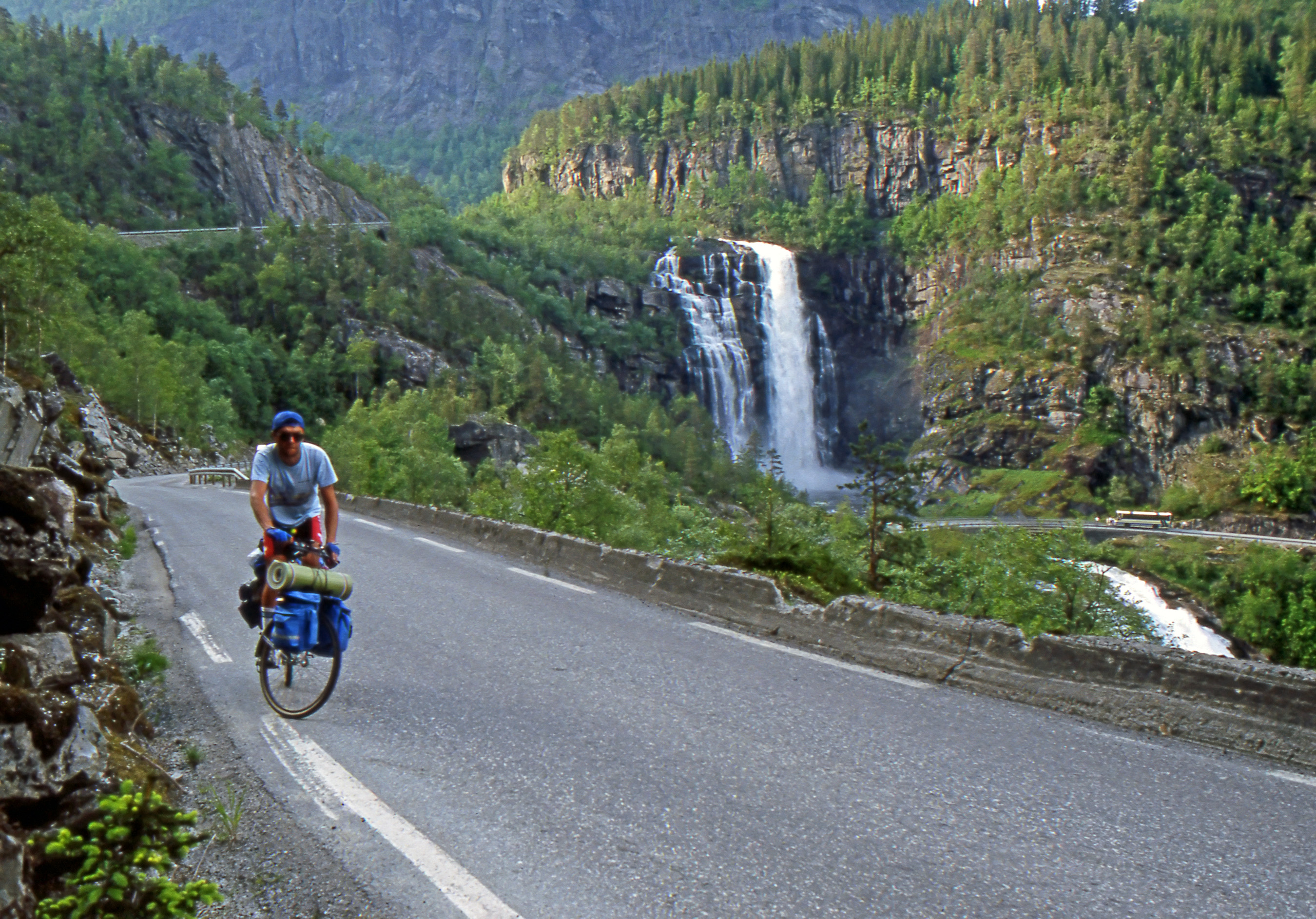 Skjervefossen Waterfalls - Road 13, Norway